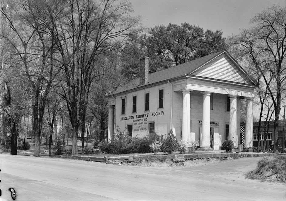 Farmers' Hall, Pendleton, South Carolina. In 1940, it was a US Post Office and the home of the Pendleton Farmers' Society. It was originally constructed as the court house for the Pendleton District, South Carolina. The District was disbanded prior to completion and completed by the Pendleton Farmers' Society. In 2007, the post office is no longer there and the first floor is a restaurant.